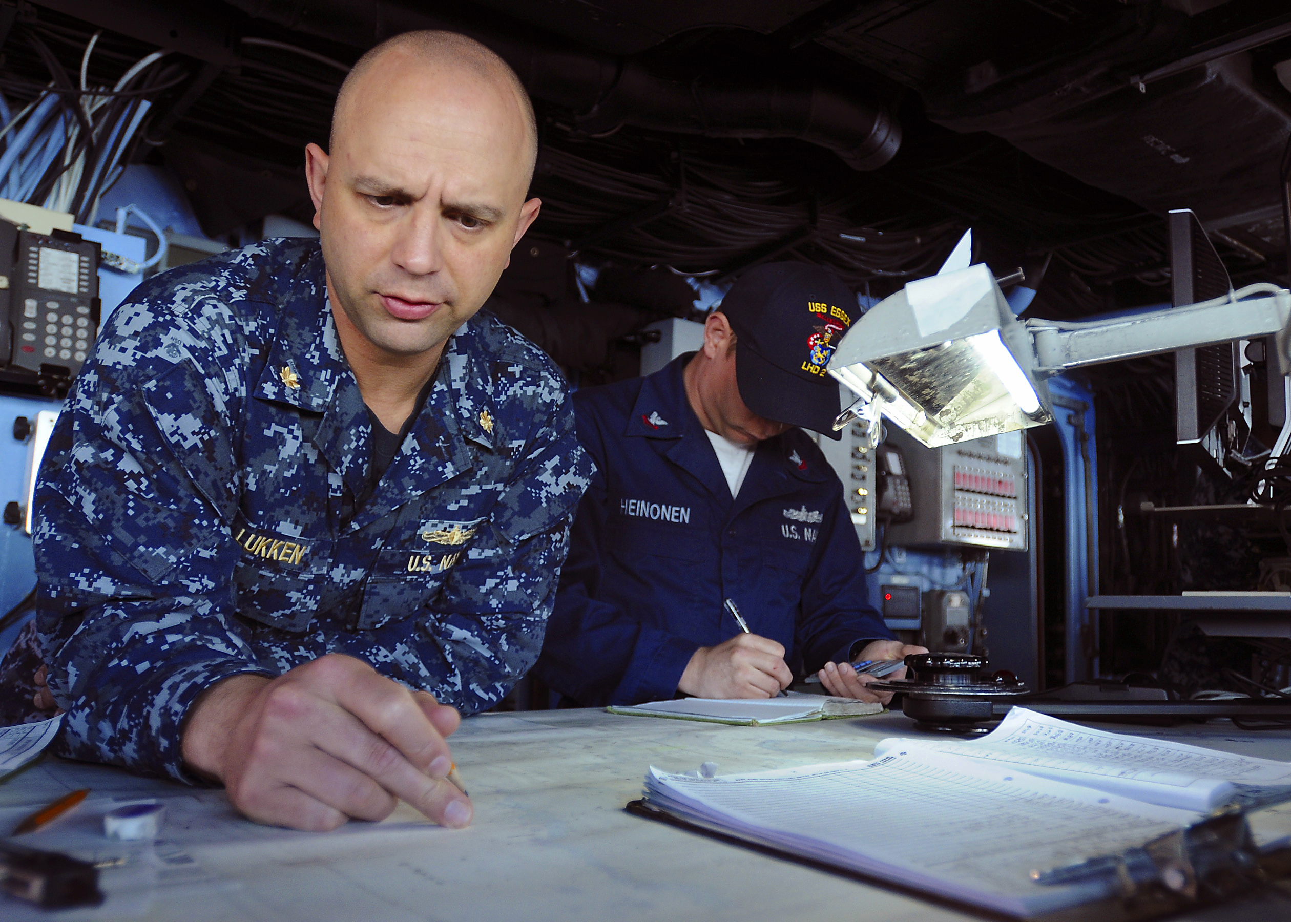 SASEBO, Japan (June 8, 2010) LCDR Mark Lukken plots a course on the chart table aboard the forward-deployed amphibious assault ship USS Essex (LHD 2). (U.S. Navy photo by Mass Communication Specialist 2nd Class Greg Johnson/Released)